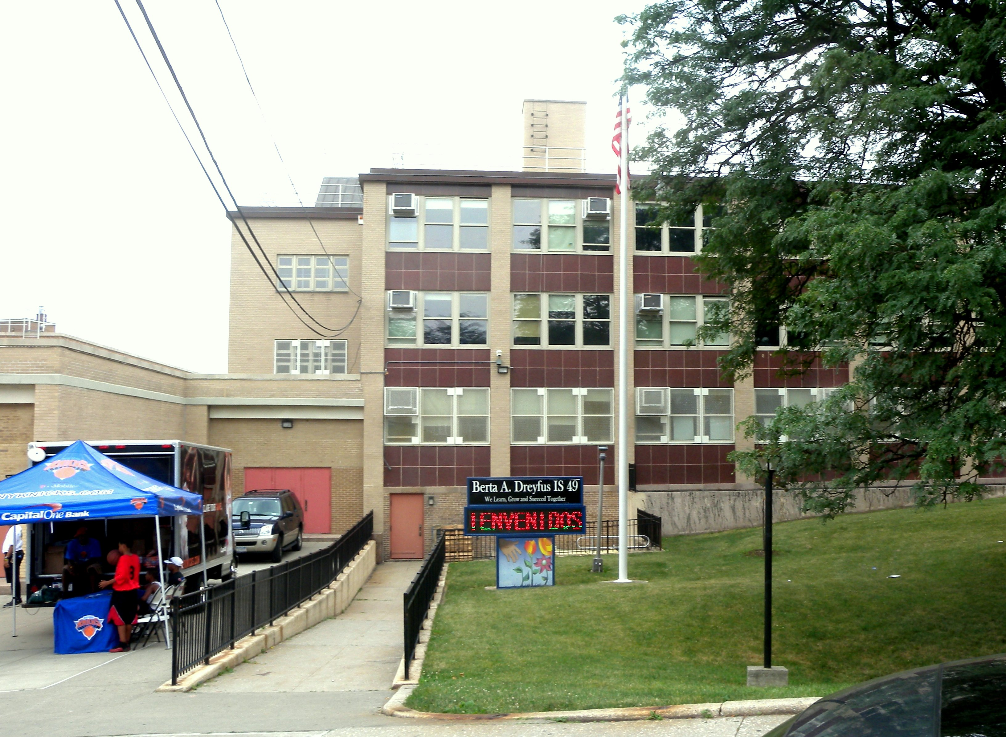 Looking northeast at Berta Dreyfus Intermediate School in southern Stapleton on a cloud midday.